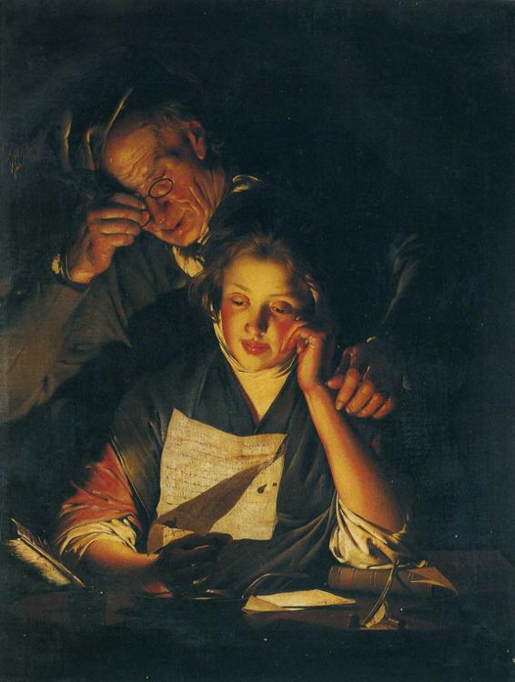 Joseph Wright of Derby. A Young Girl Reading a Letter, with an Old Man Reading over Her Shoulder. c. 1767-70. Oil on canvas. 91.5 x 71.2 cm. Private collection.